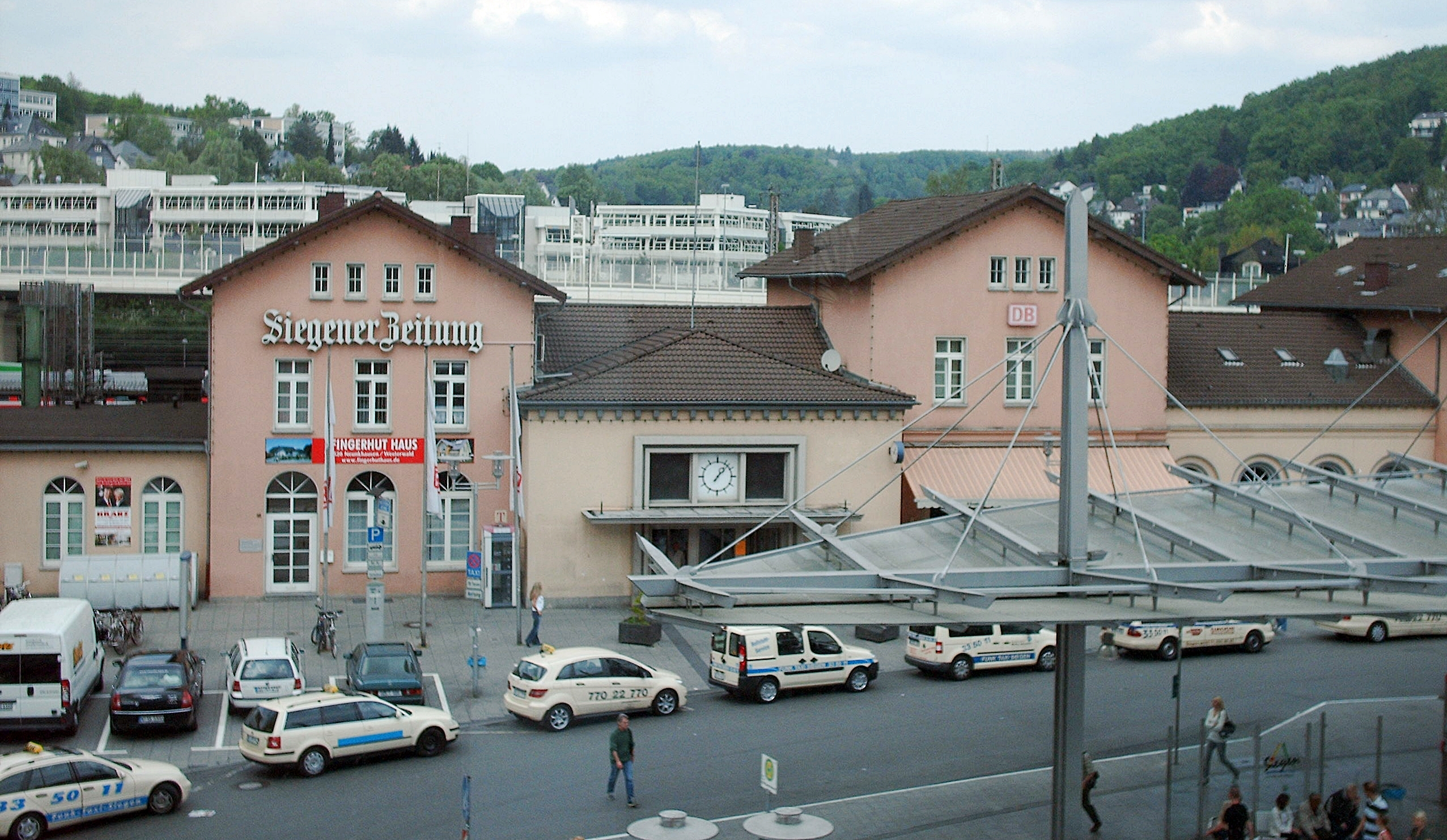 Station, Siegen, Germany check usage